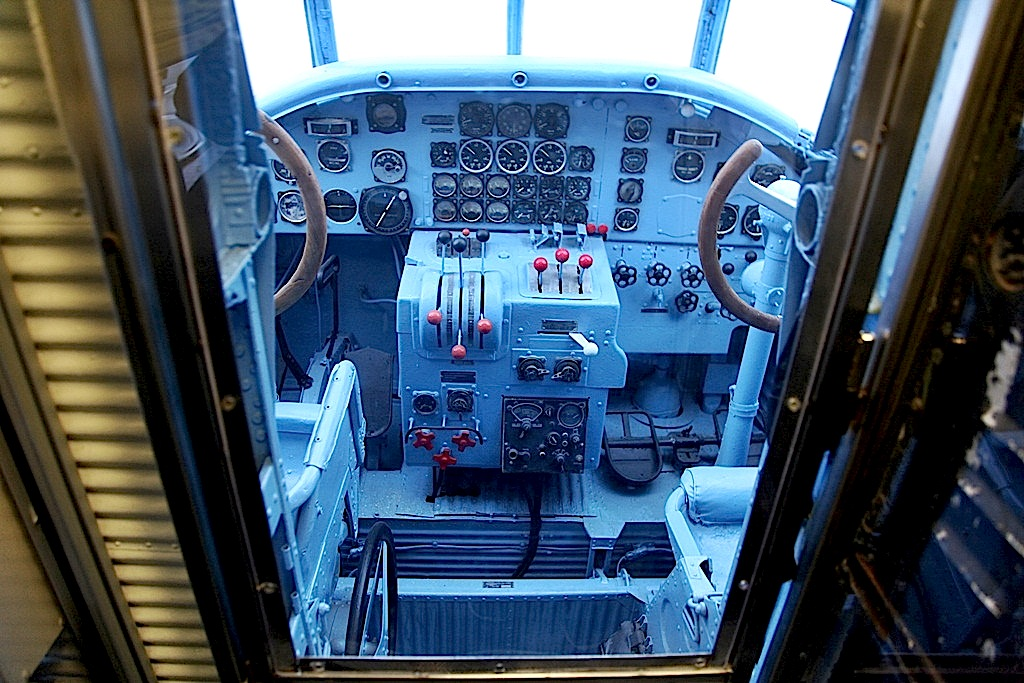 Cockpit layout of Junkers Ju 52 passenger variant